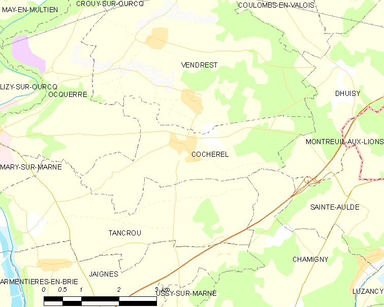 Map of French municipality Cocherel